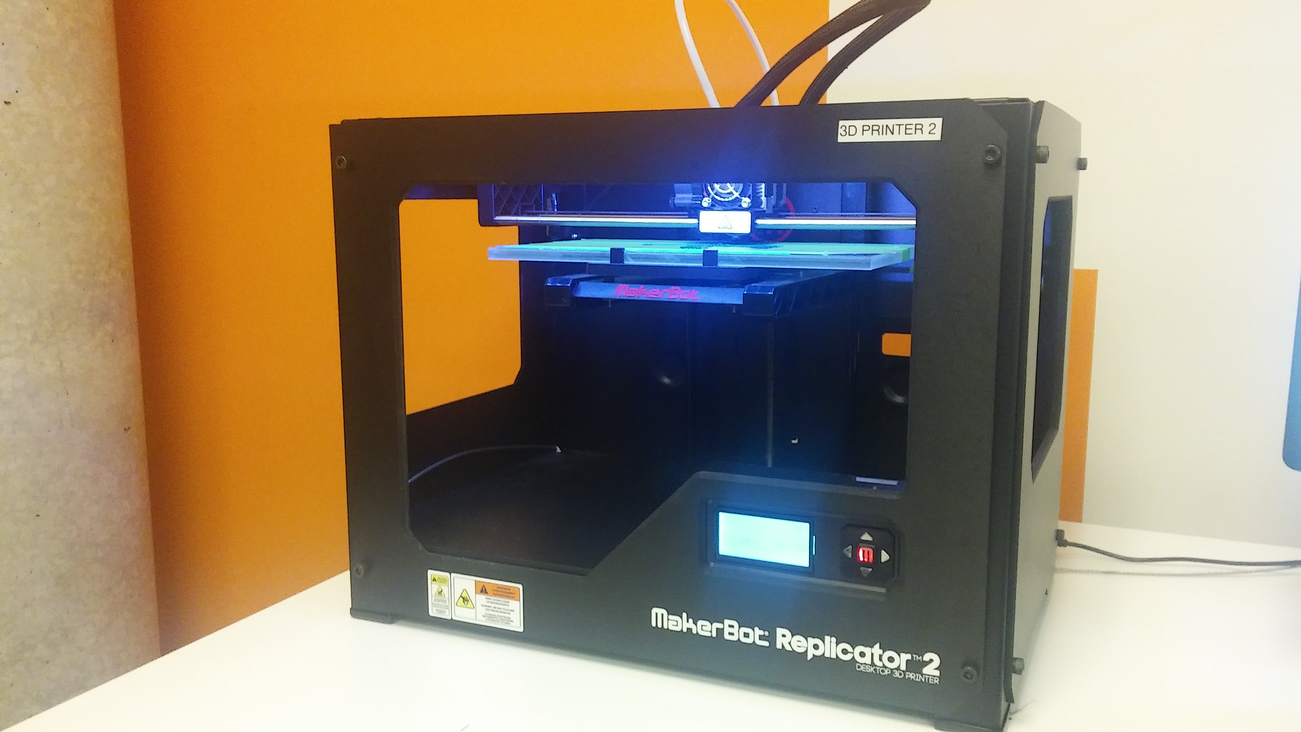 MakerBot Replicator 2 Desktop 3D Printer in University of Toronto Scarborough's library